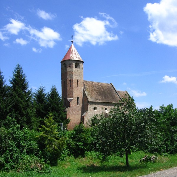 Morovic church